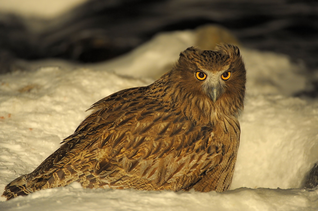 Blakiston's Fish Owl - (Bubo blakistoni)